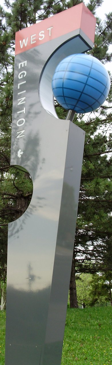 An Eglinton West marker along Eglinton Avenue West at Ben Nobleman Park in Toronto, Canada.